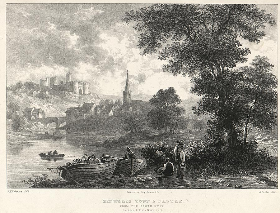 Fishermen using nets and carrying baskets are seen alongside the river, the castle, bridge and church are seen in the distance.